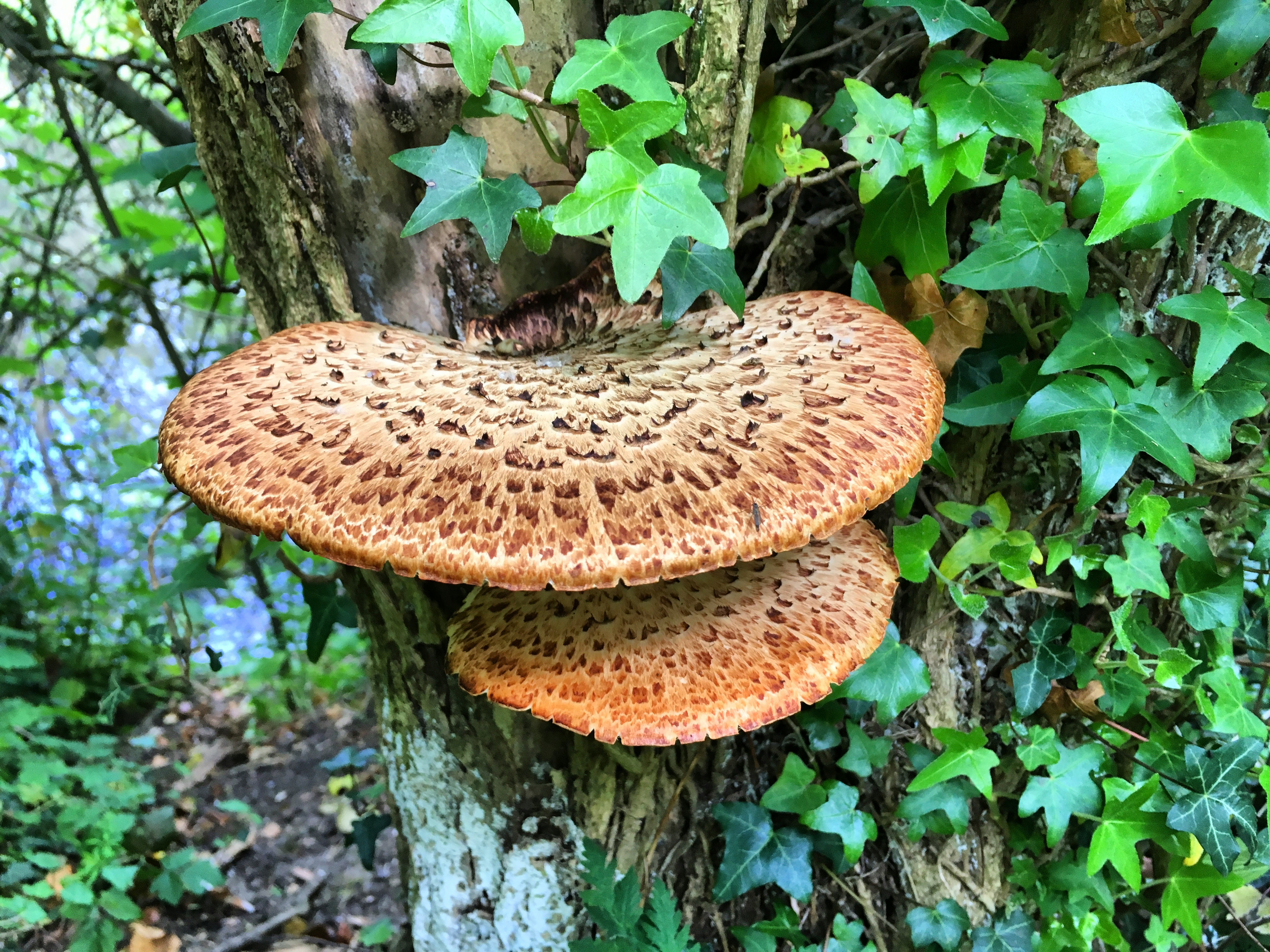 Found this fine specimen while out for a walk by Braywick Park in Maidenhead.